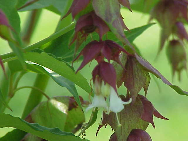 Species: Leycesteria formosa Family: Caprifoliaceae Image No. 4